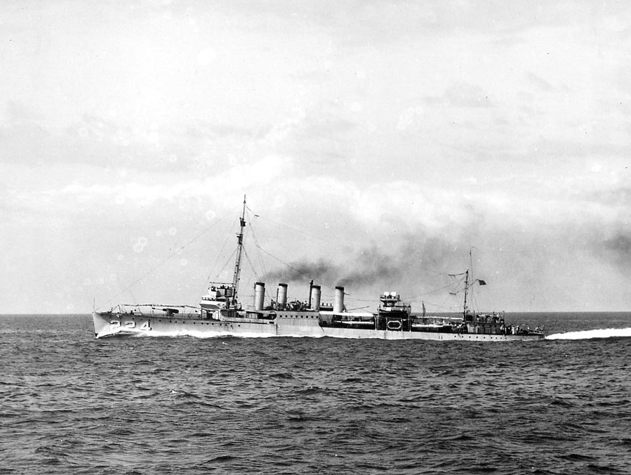 The U.S. Navy destroyer USS Stewart (DD-224) steaming at high speed, circa in the 1920s or 1930s.